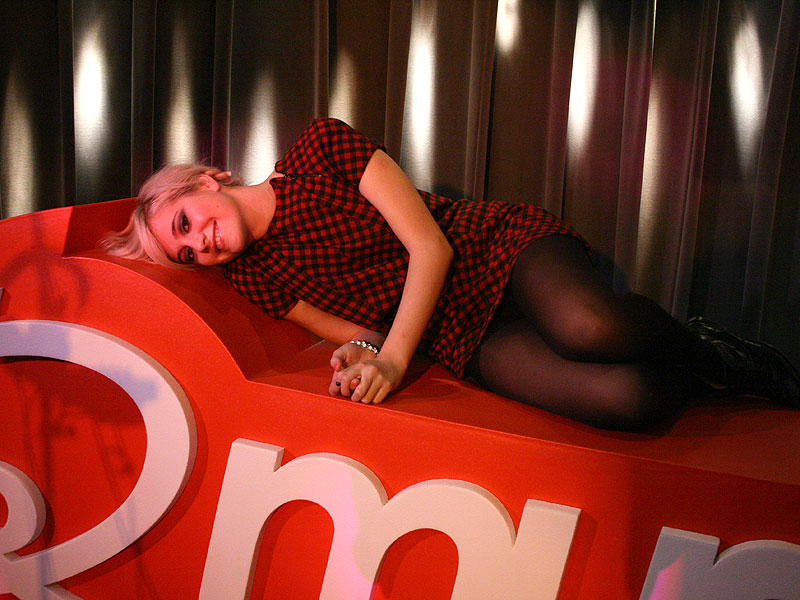 Pixie Lott making an appearance at Q-music radio station